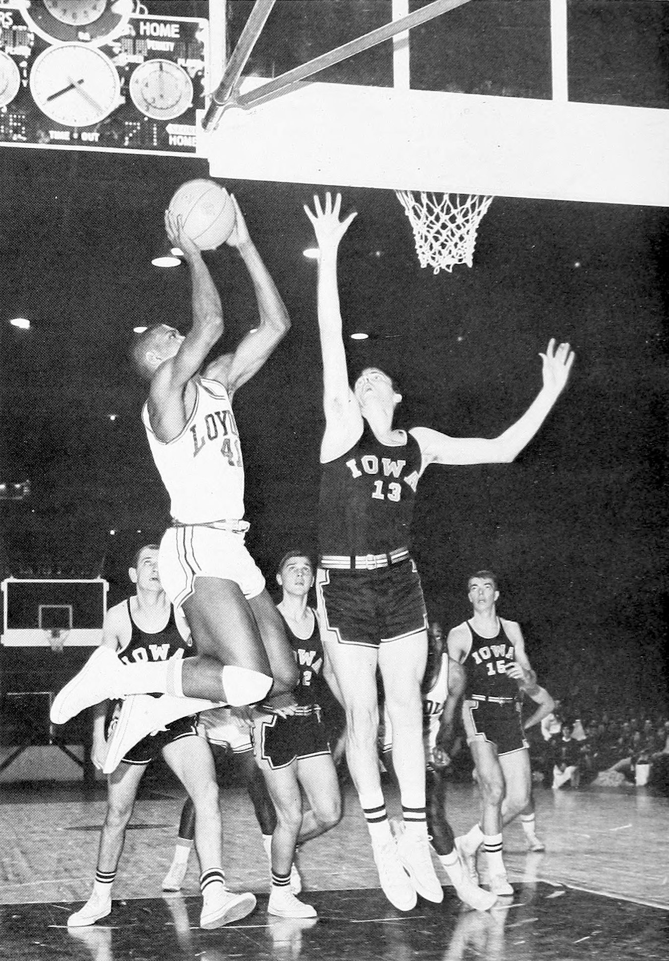 Les Hunter of the Loyola Ramblers shoots a layup against the Iowa Hawkeyes in a college basketball game on February 2, 1963. This photo was scanned from page 307 from the 1963 edition of the Loyolan, the yearbook of Loyola University Chicago.